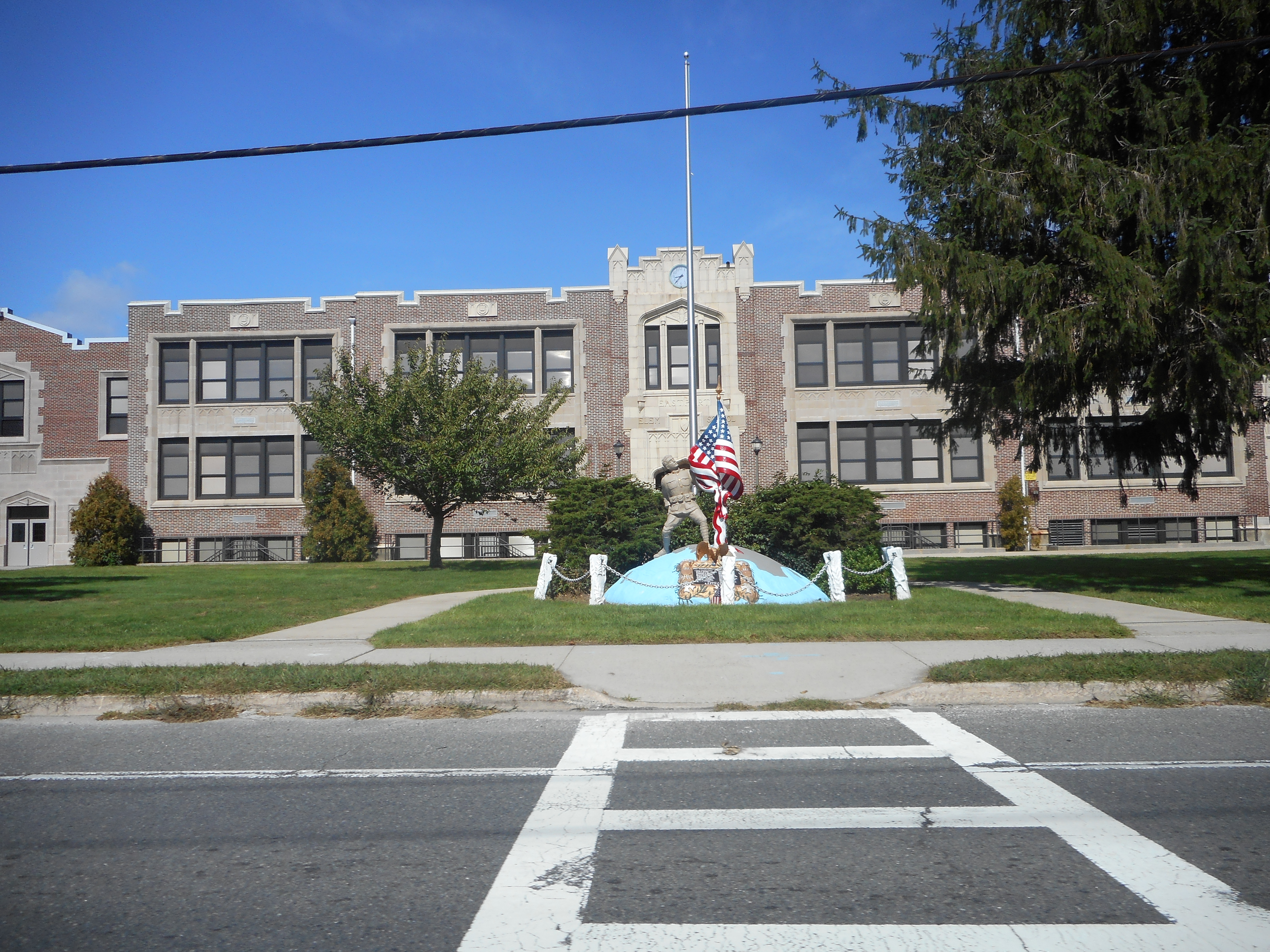 The Eastport Elementary School along Montauk Highway on the Town of Southampton side of Eastport, New York. There has always been something about schools along Montauk Highway east of what is today the "Oakdale Merge" that has given me a sense that they just truly belong there, although I can't put my finger on what it gives me that feeling. And the further out east you go, the stronger that feeling gets for me.